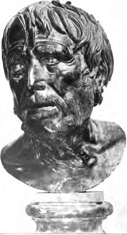 Photograph of a bronze bust found in the garden at Herculaneum, on the south side, in 1754. Originally and mistakenly called 'Seneca', it was renamed to 'Pseudo-Seneca' once the mistake was discovered.